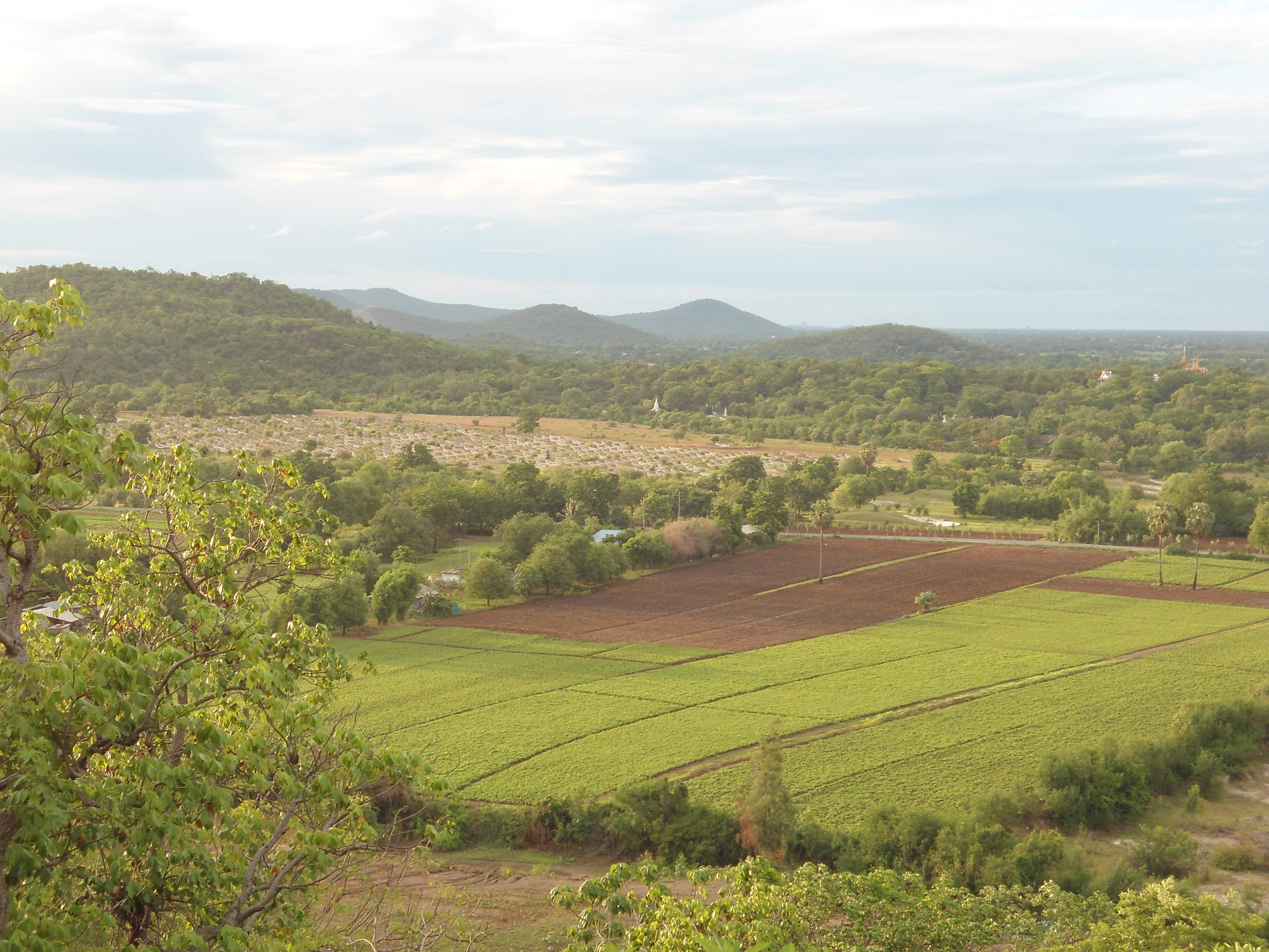 Khao Phra, Amphoe U Thong, Suphanburi province, Thailand